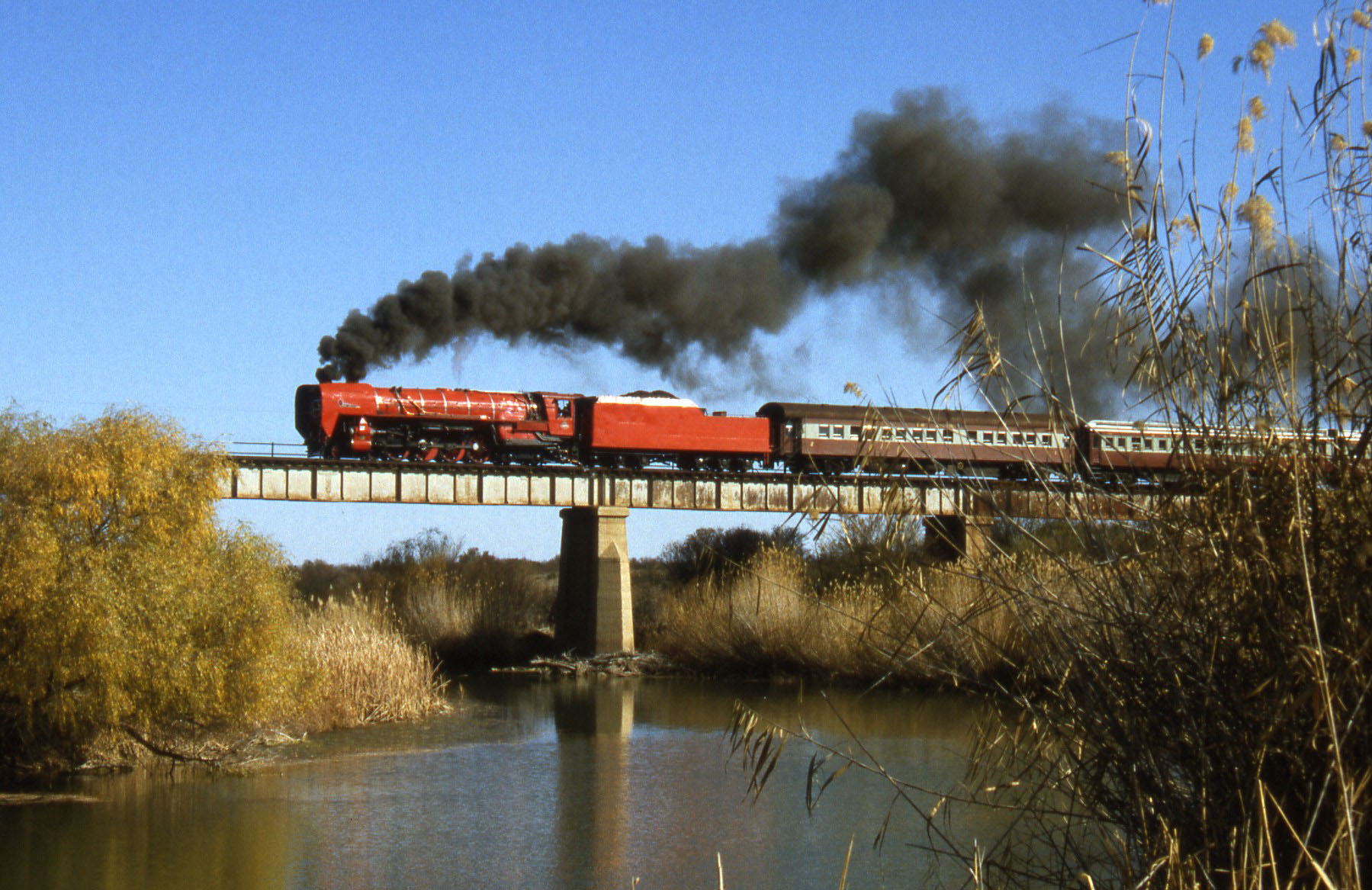 SAR Class 26 3450 (4-8-4) Henschel Location: Perdeberg